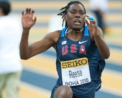 Brittney Reese during 2010 World Indoor Championships